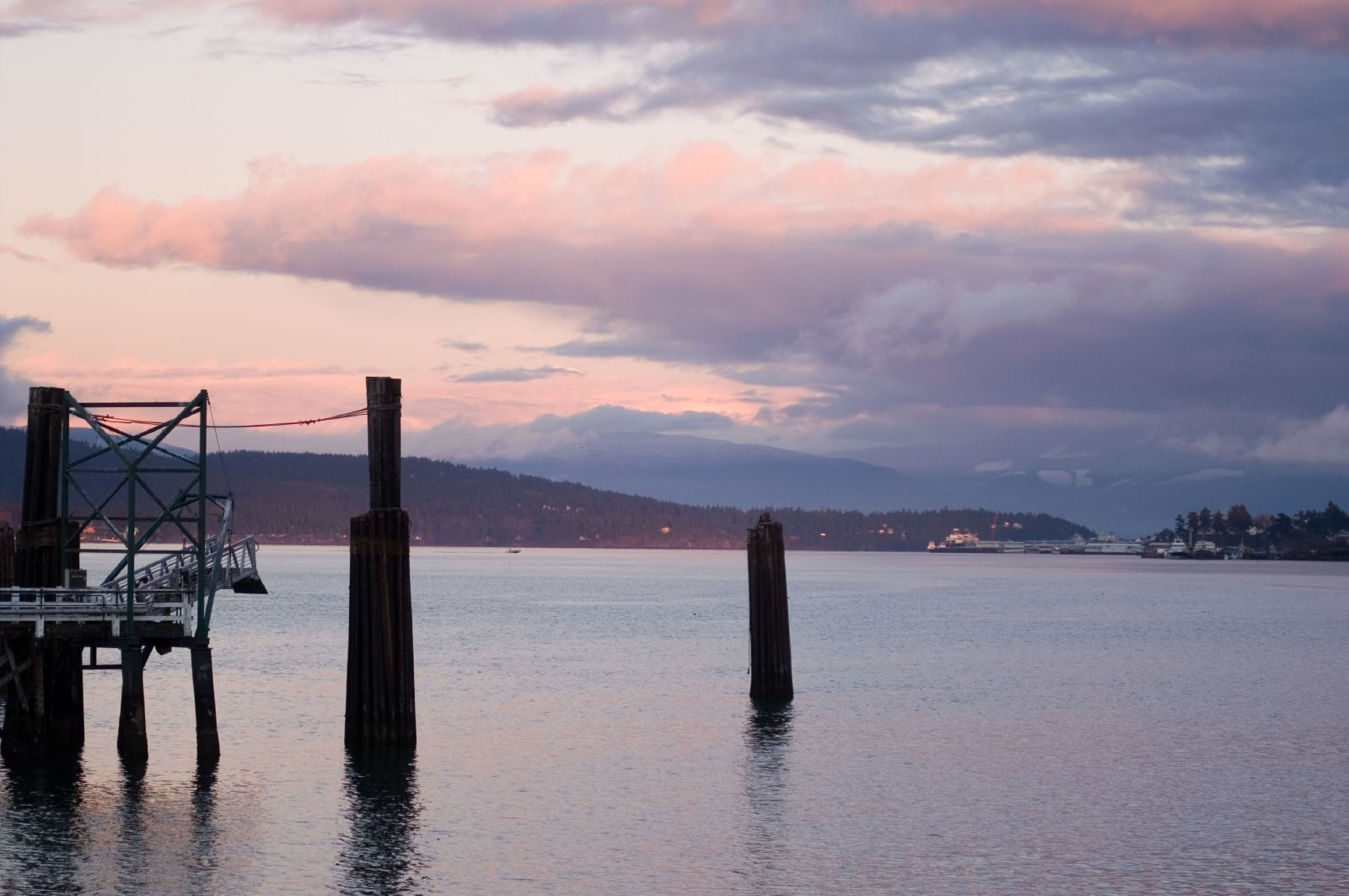 Ferry Dock - Anacortes, Washington